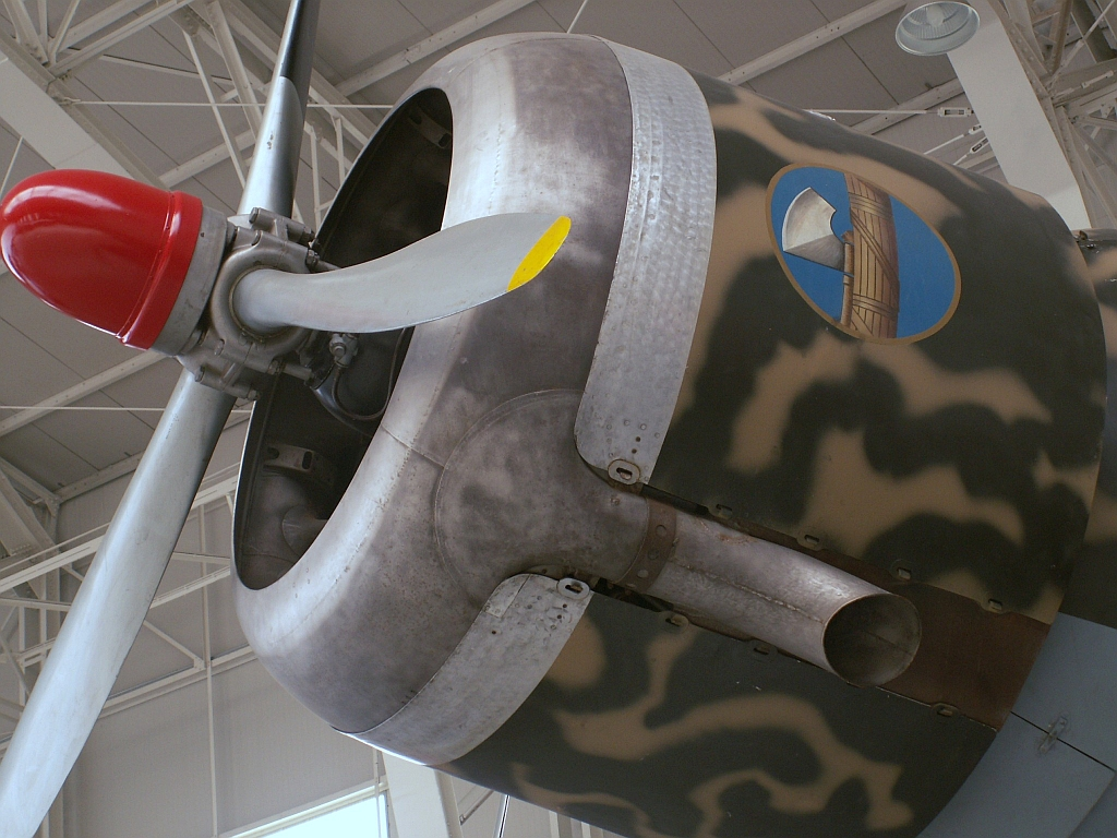 Savoia-Marchetti SM.79 at the Italian Air Force Museum in Vigna di Valle, wearing the wing markings of the Regia Aeronautica.